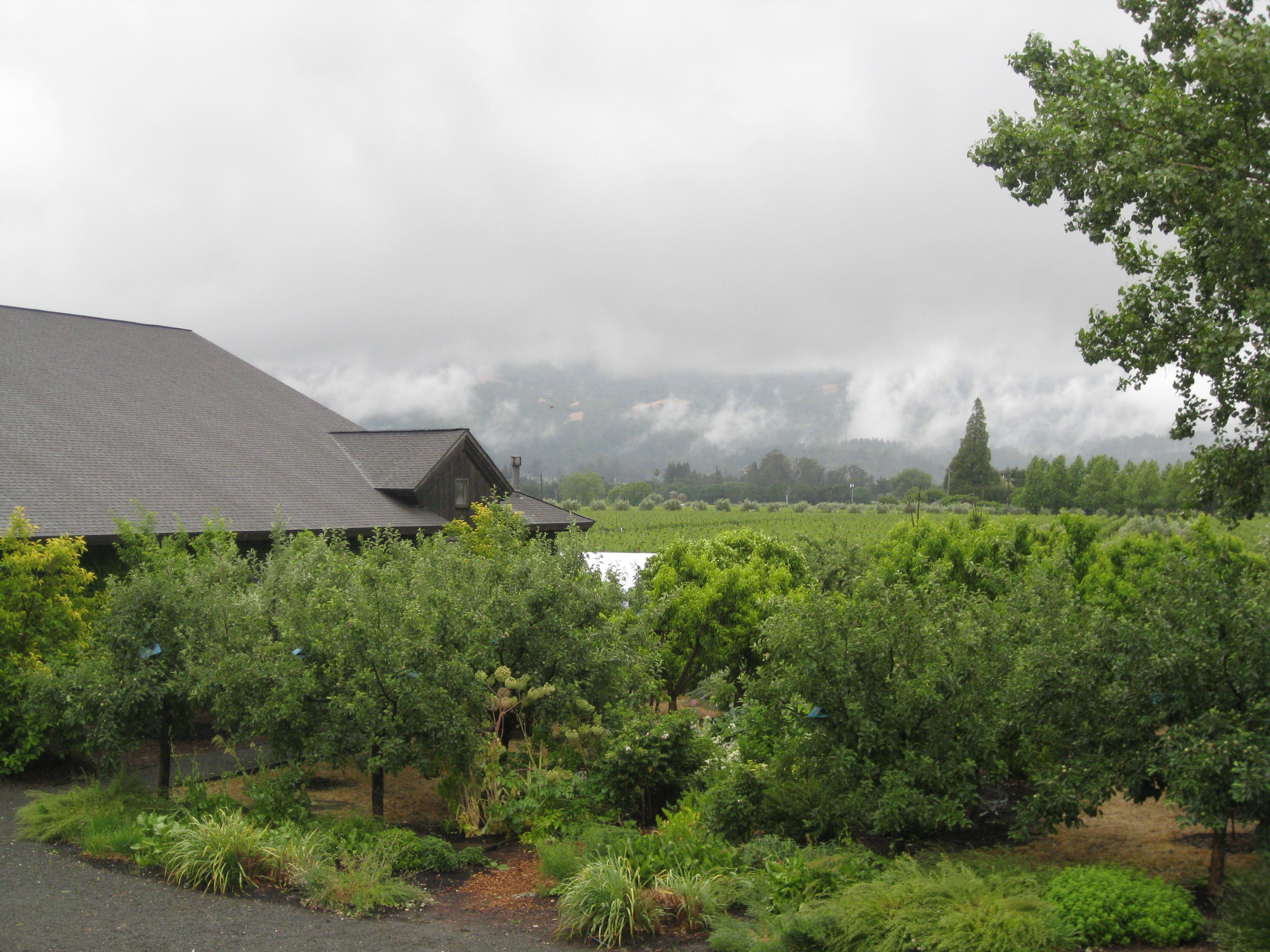 A view of the vineyard at Frog's Leap Winery